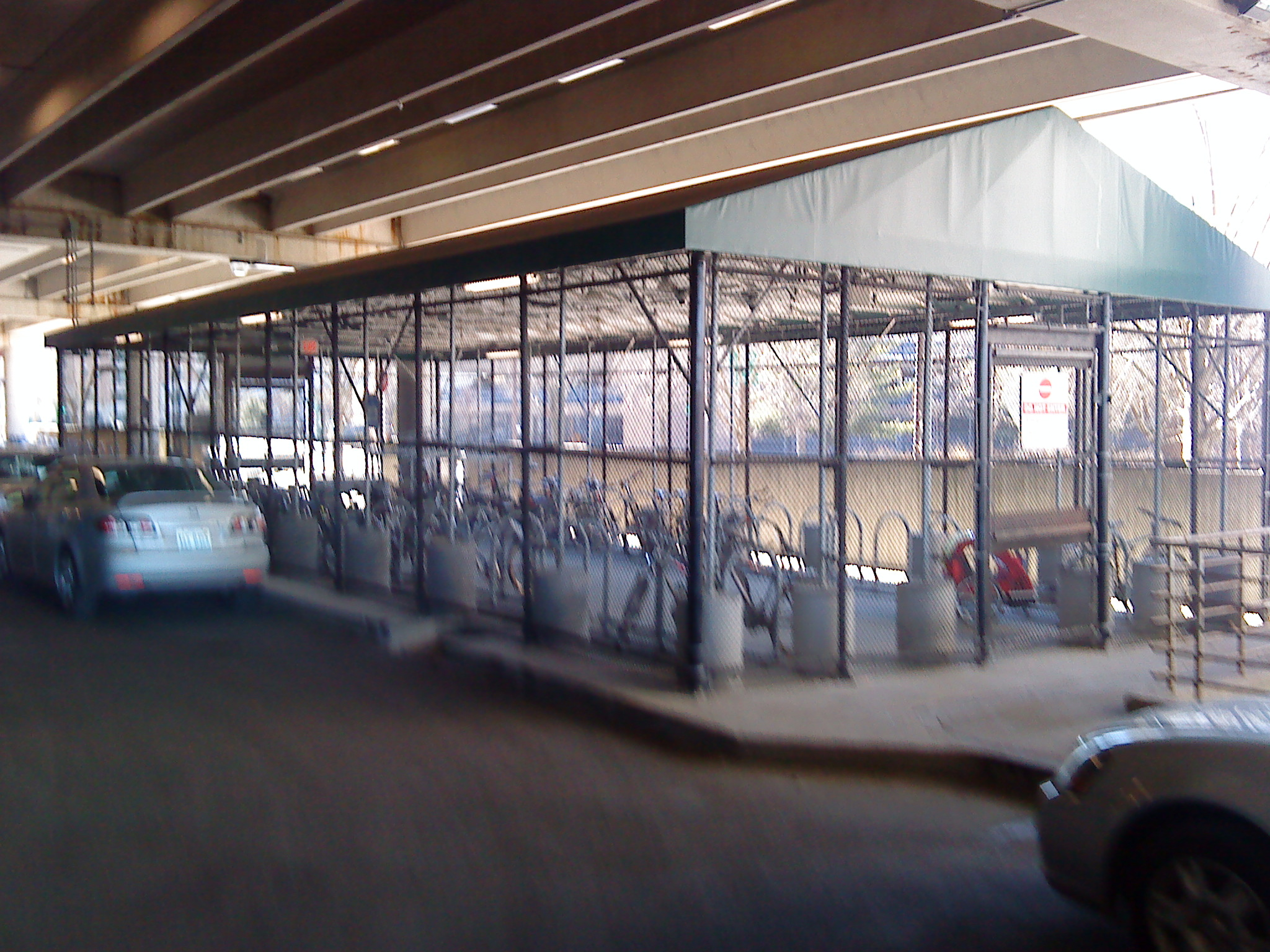 MBTA bike cage at Alewife Station. Entry to the bike cage works by obtaining and using the bike-CharlieCard. February 2010.